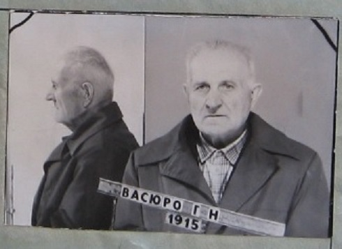 Photo of Hryhoriy Vasiura, an executioner of the Khatyn massacre, from his criminal case, 1986. Central Archive of the KGB (State Security Agency) of the Republic of Belarus. Arch. criminal case 26746